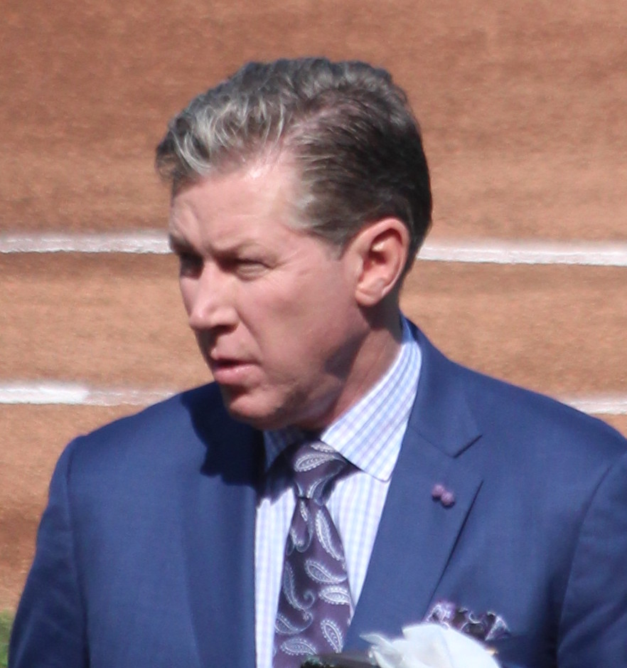 Orel Hershiser at a Wrigley Field